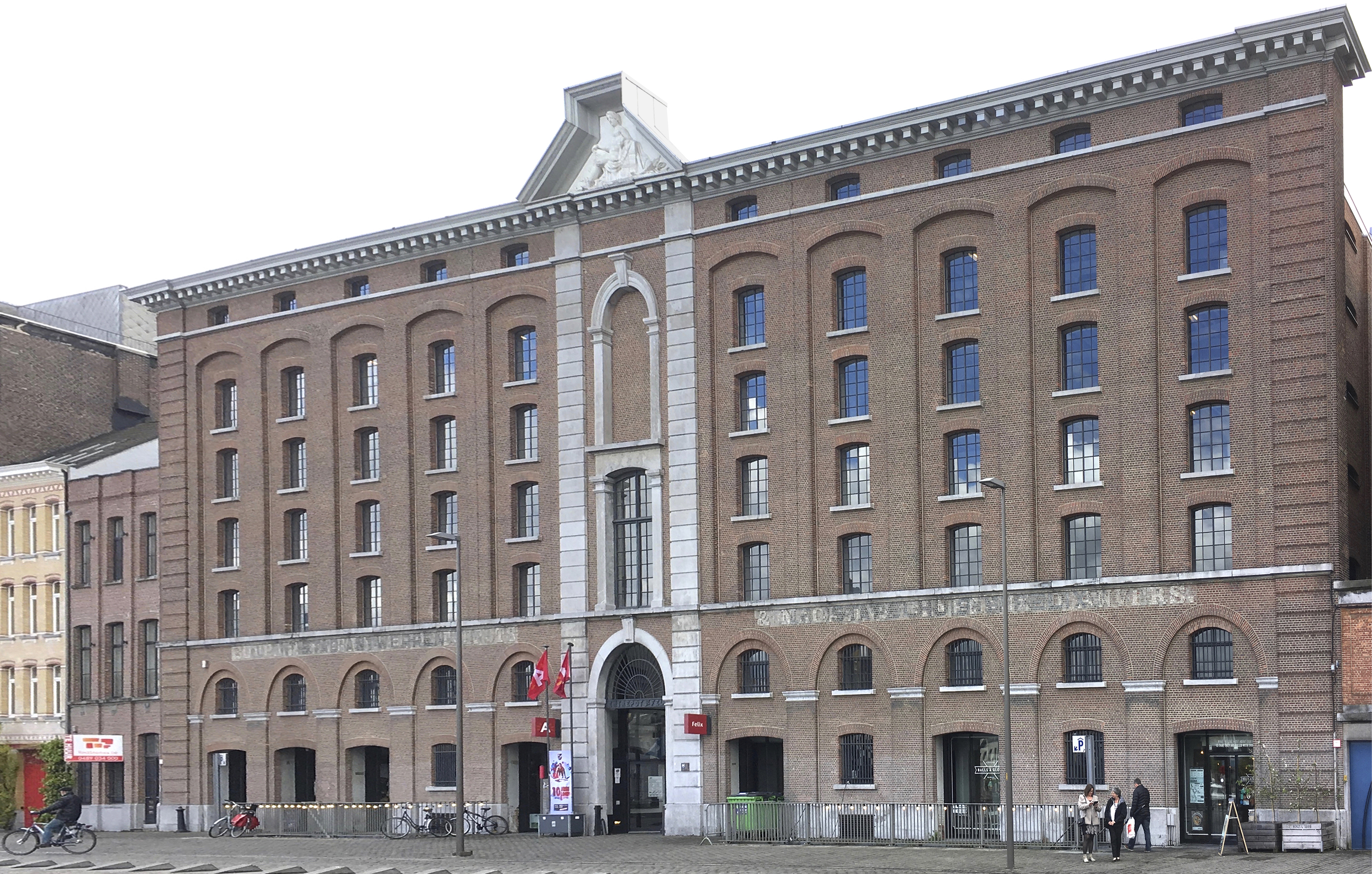 Felix Pakhuis, Antwerpen